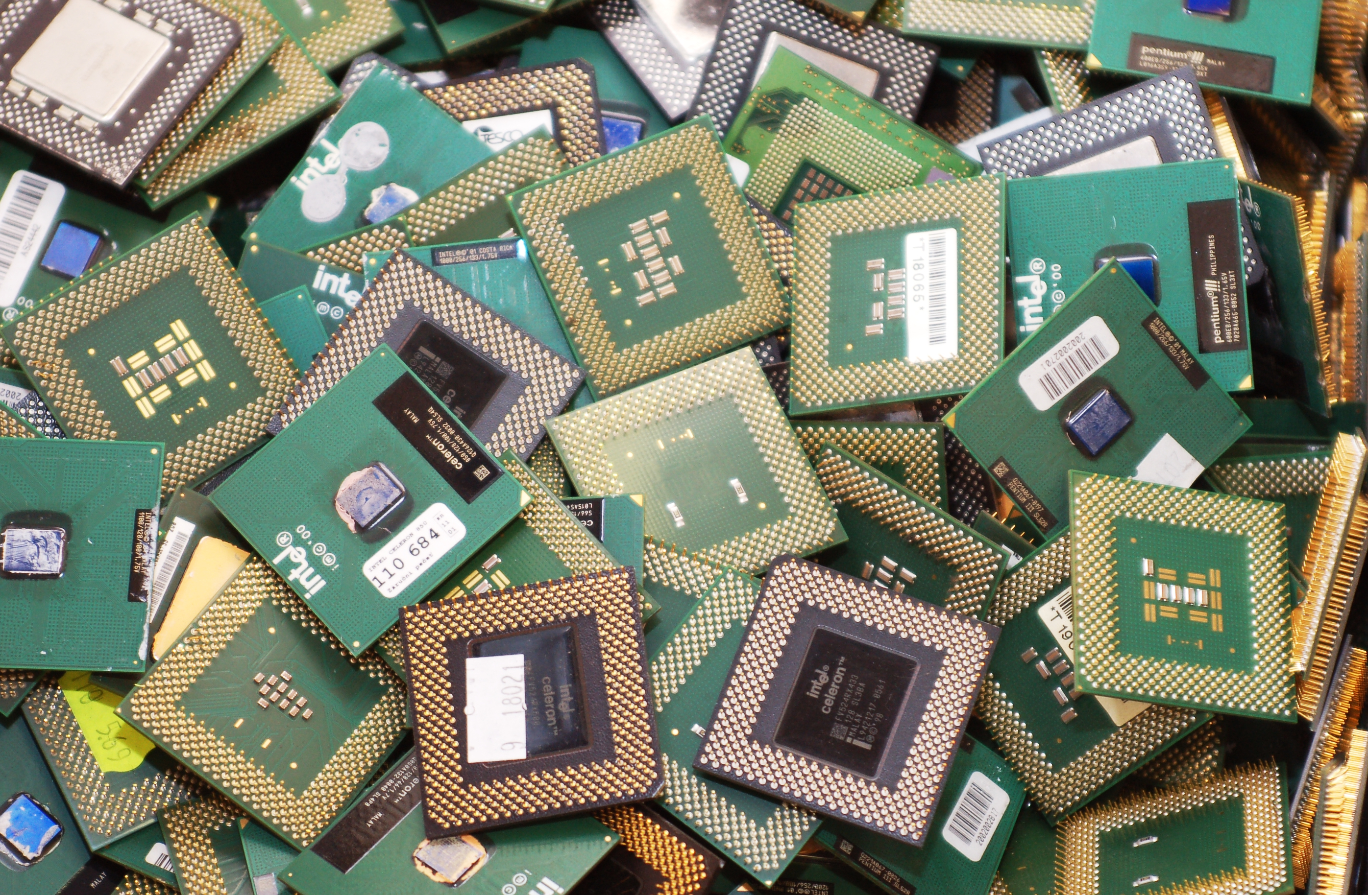 CPUs from retired computers waiting for recyclation